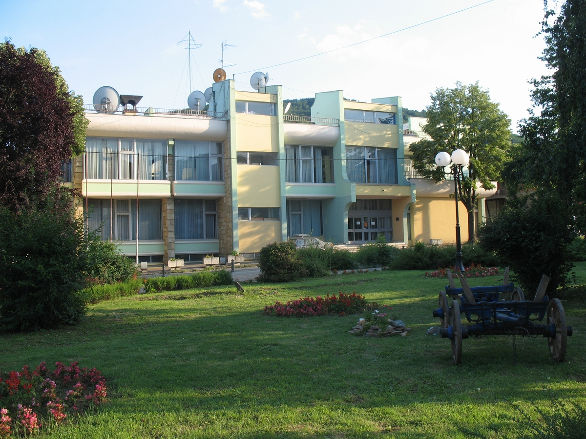 Library in Brus, Serbia.